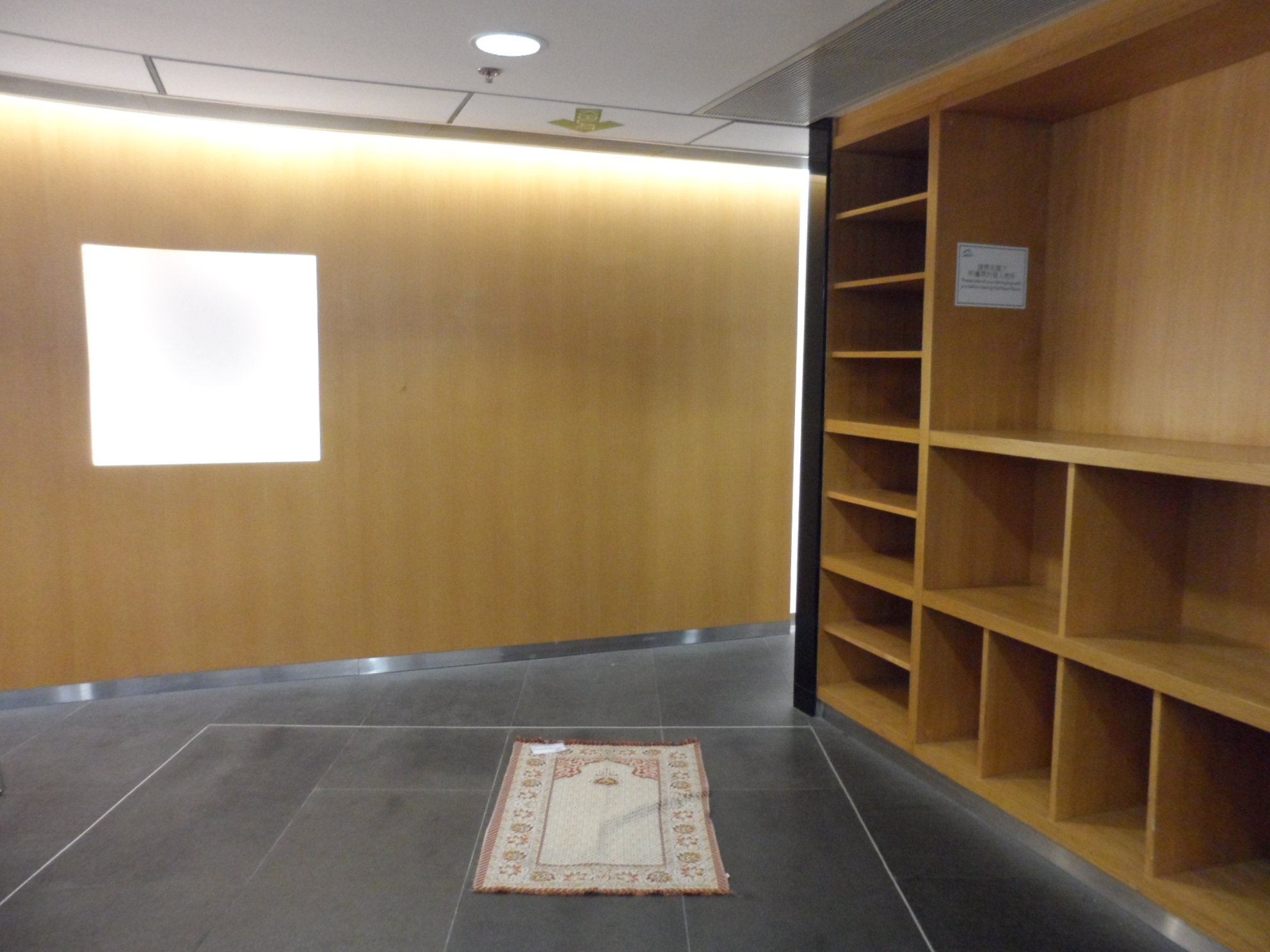 Multifaith prayer room, Terminal 1, Hong Kong International Airport, Lantau Island, Hong Kong, China